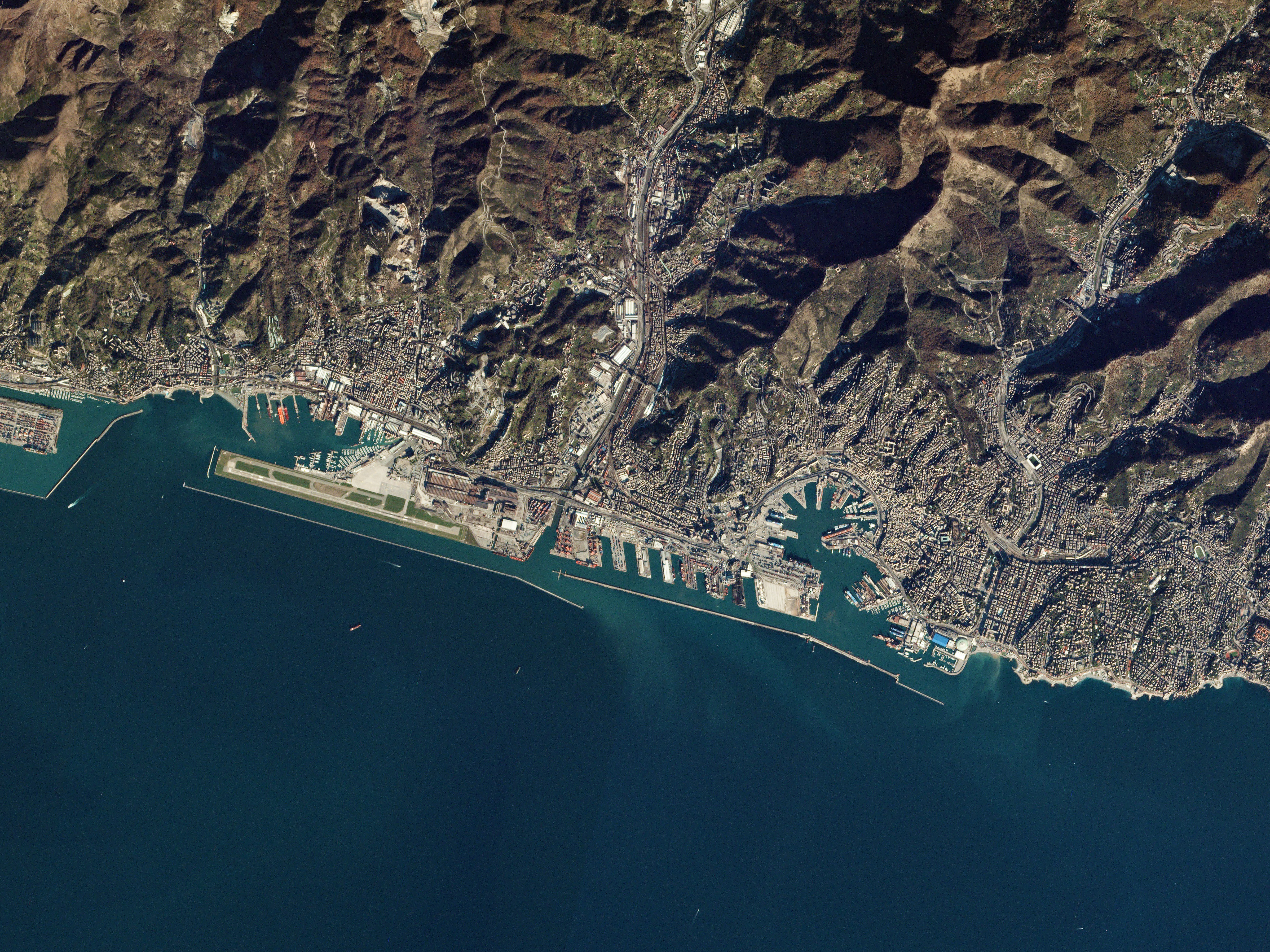 Genoa, Italy November 30, 2016 Kilometers-long breakwaters separate the Mediterranean Sea from the port town of Genoa, Italy. The circular Porto Antico (or Old Harbor), once a crucial trading port for goods, now serves as the town's tourism center, complete with an aquarium and a panoramic view tower. The valley in the middle is the deep Val Polcevera with railway lines and a bridge, with hills of Coronata (in the West) and Belvedere (in the East of the river), two quarters in Genoa.